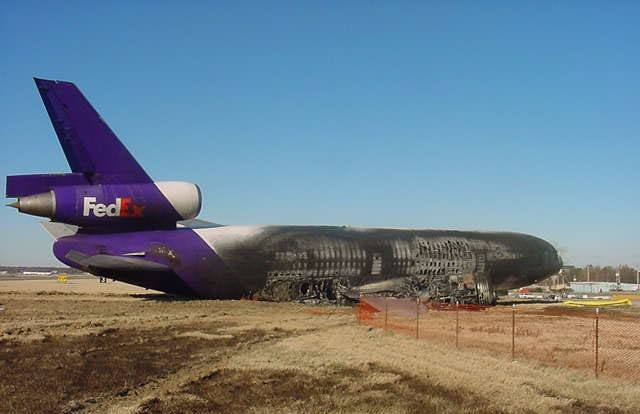 FedEx MD-10 Crash in Memphis Tennessee